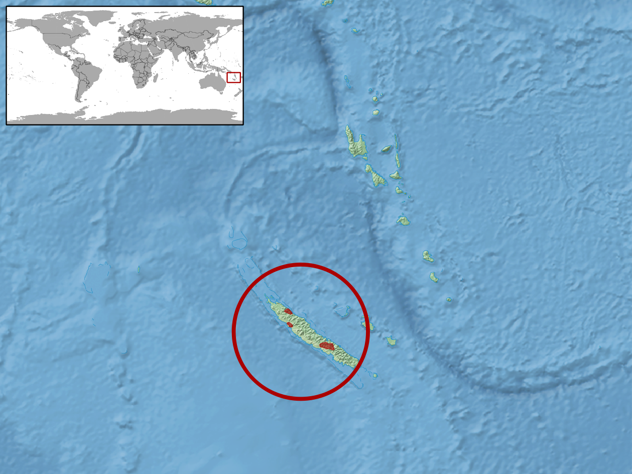 geographic distribution of Caledoniscincus orestes